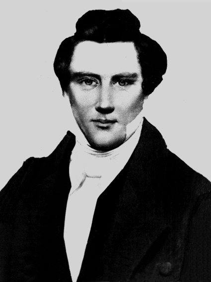 1843 Photograph of Joseph Smith, Jr. by Lucian Foster (November 12, 1806-December 12 1845). This photograph is believed by many experts to be a daguerreotype of Joseph Smith taken in 1843 by Lucian Foster, and there is no dispute of the fact it is a faithful representation of the likeness of Smith, as it is similar in appearance to the painted portrait owned by the Joseph Smith family. Joseph Smith III, eleven years old at his father's death, said the portrait was the best likeness of his father. The authenticity of the photograph has been affirmed by several scholarly studies, but some suggest the daguerreotype was made from a painted portrait. . The image was copyrighted in 1879 by Smith's son Joseph Smith III (Copyright No. 9810). The original daguerreotype has been lost, but this photo reproduction (slightly re-touched) is kept on file at the Library of Congress.